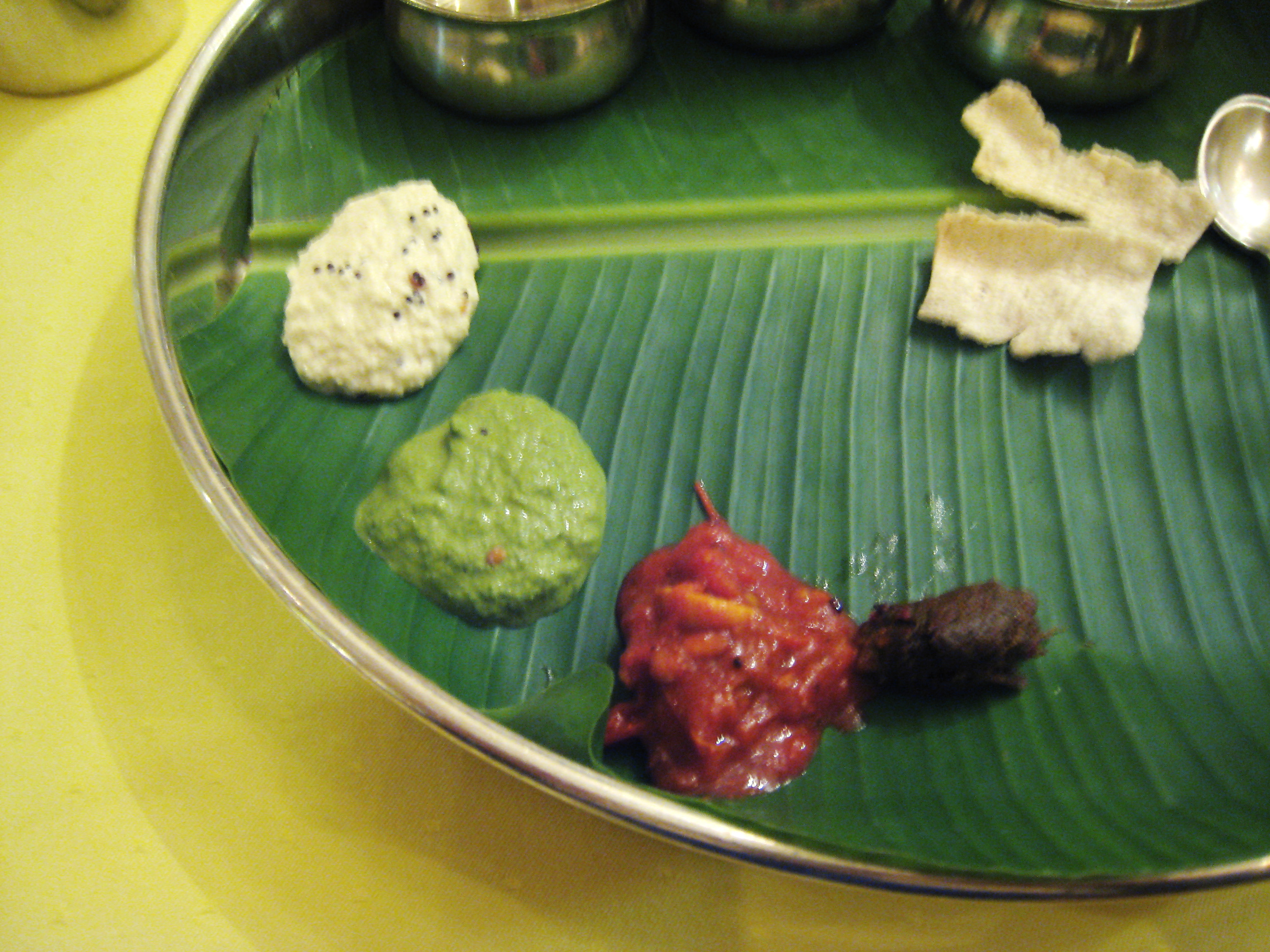 Dakshin chutneys